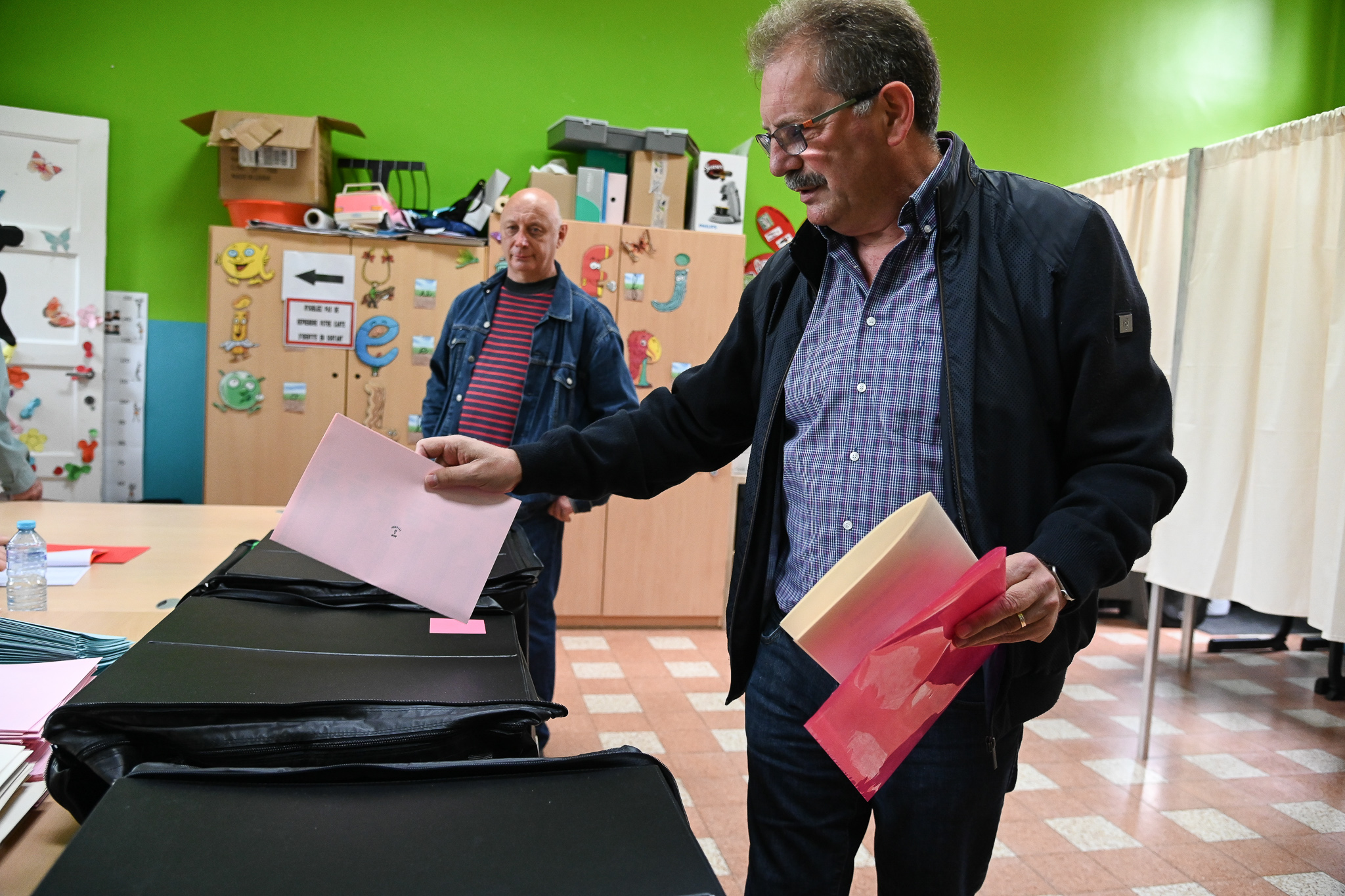 European Elections 2019 - Vote by Nico CUÉ, EL lead candidate for the Presidency of the EC in Liers, Belgium Find more pictures at Copyright: © European Union 2019 - Source : EP